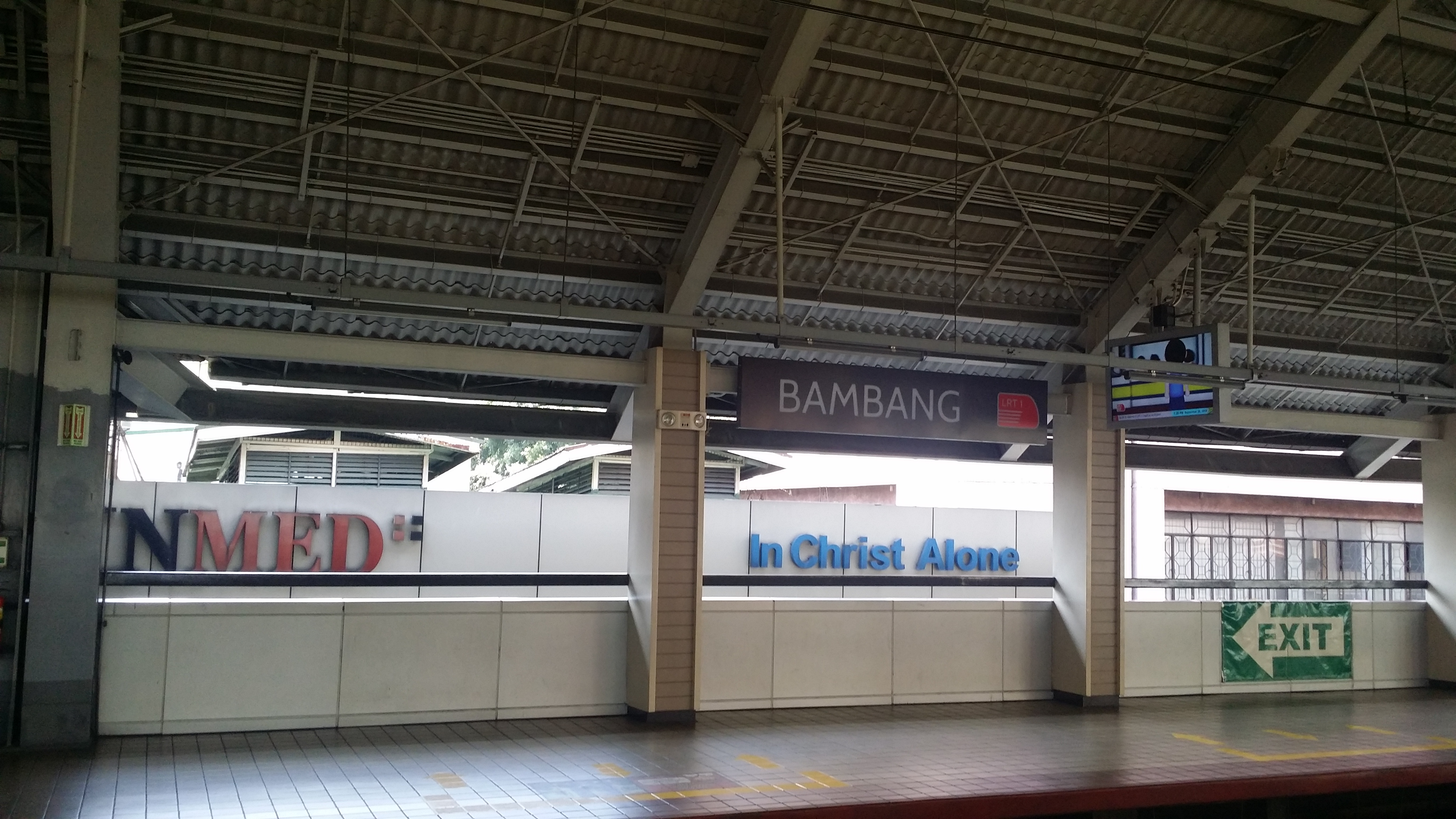 The platform of LRT 1 Bambang Station with a newly enhanced station sign